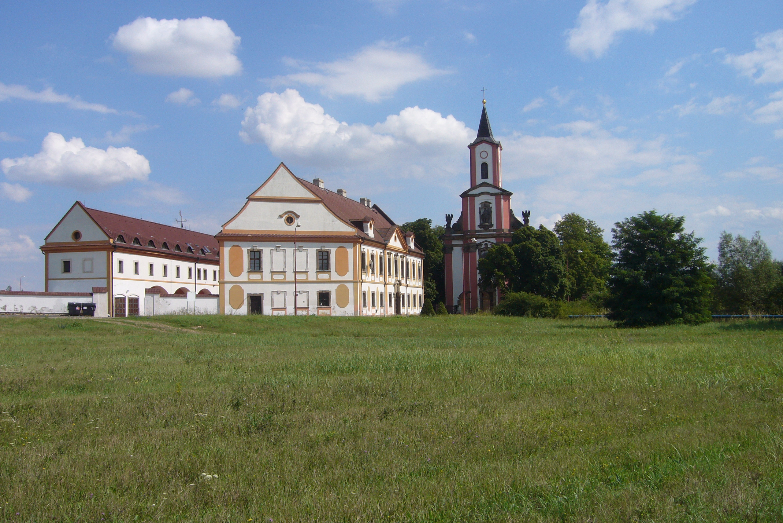 Church of St. Wenceslas in Vysočany